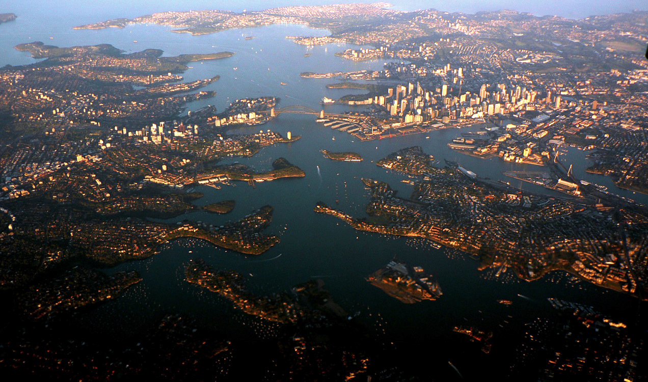 Made changes to existing public domain image - ie, adjusted colour to show more. Source : File:Sydney(from air).jpg Original author : user:Kingyj